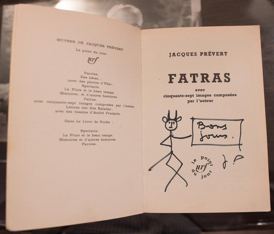 A book signed by Jacques Prévert with his sketch. It can be found in the Society for Culture, Art and International Cooperation Adligat in Belgrade, Serbia. Српски (ћирилица): Посвета и цртеж Жака Превера. Налази се у Удружењу за културу, уметност и међународну сарадњу „Адлигат” у Београду.